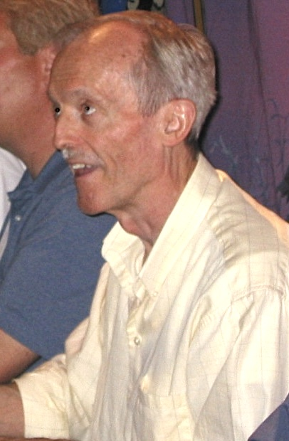 A photo of animator Don Bluth